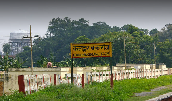 Shows the name of the Station.